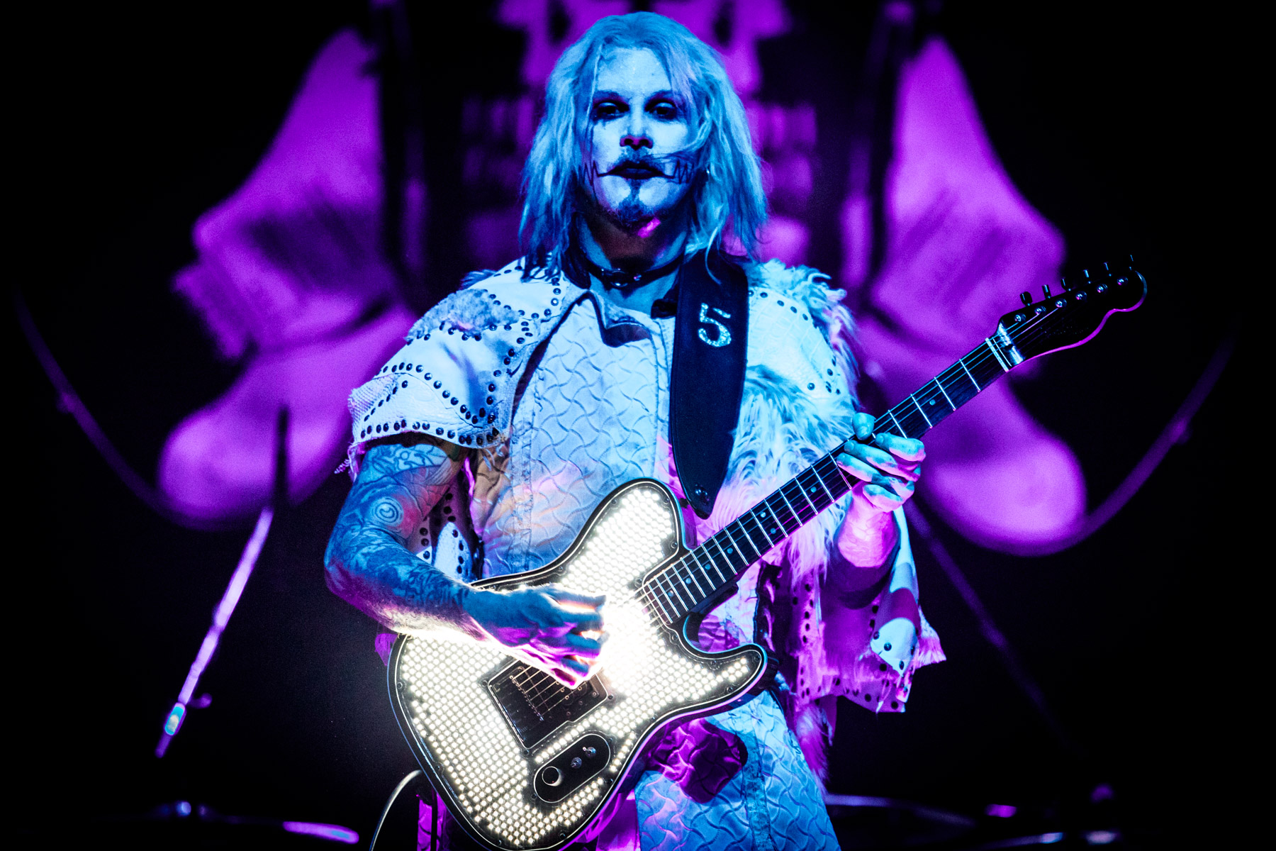 John 5 at the Rickshaw Theatre in Vancouver, 2019